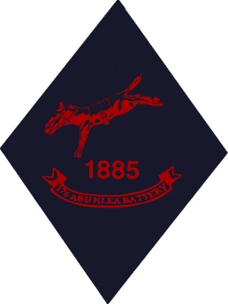 The battery emblem of 176 (Abu Klea) Battery Royal Artillery. For the article on that unit. The emblem was adopted on 22nd June 1993. This copy of it has been recreated from scratch by the uploader.